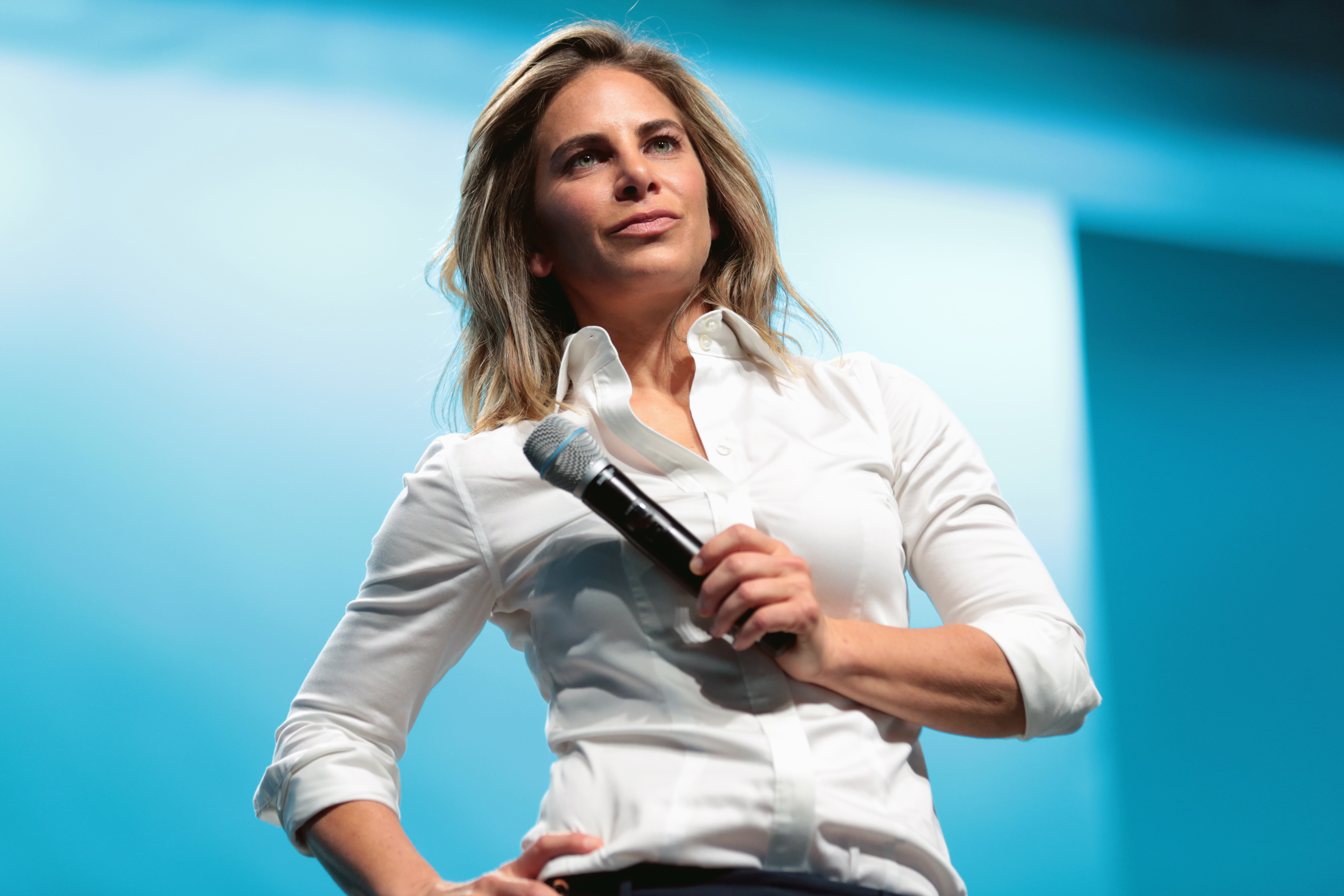 Jillian Michaels speaking with attendees at the 2017 ICON hosted by Infusionsoft at the Phoenix Convention Center in Phoenix, Arizona.